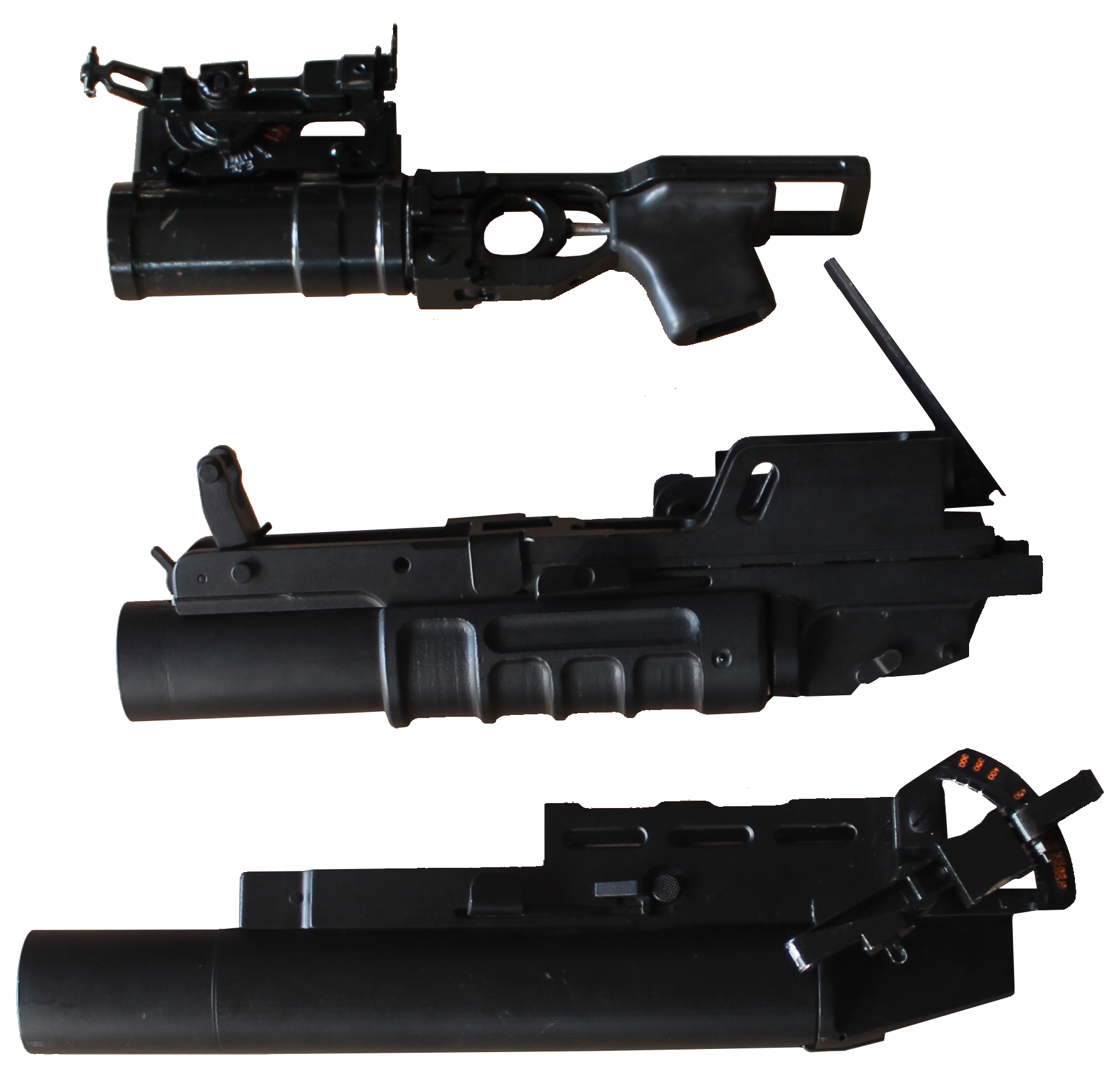 georgian made under barrel grenade launchers. stc delta.